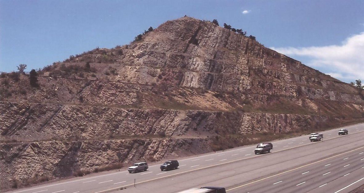 Roadcut where I-70 cuts through Dinosaur Ridge at Highway 26 exit. Taken 2003, facing south. Shows the Morrison Formation (right) and overlying Dakota Formation (left).